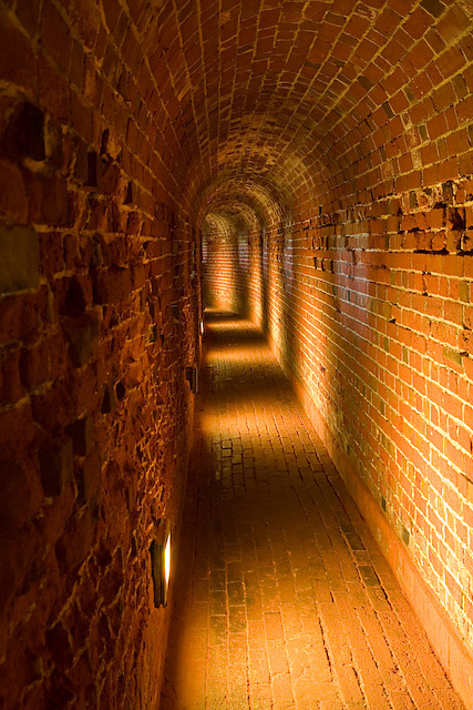 Defensive tunnel in Southsea Castle The castle is surrounded by a dry moat. This tunnel is within the outer wall of this moat and enables defenders to fire inwards at anyone attempting to scale the castle walls. There are loopholes along the lefthand wall (casting blue shadows of daylight on the righthand wall; the yellow lighting is artificial).